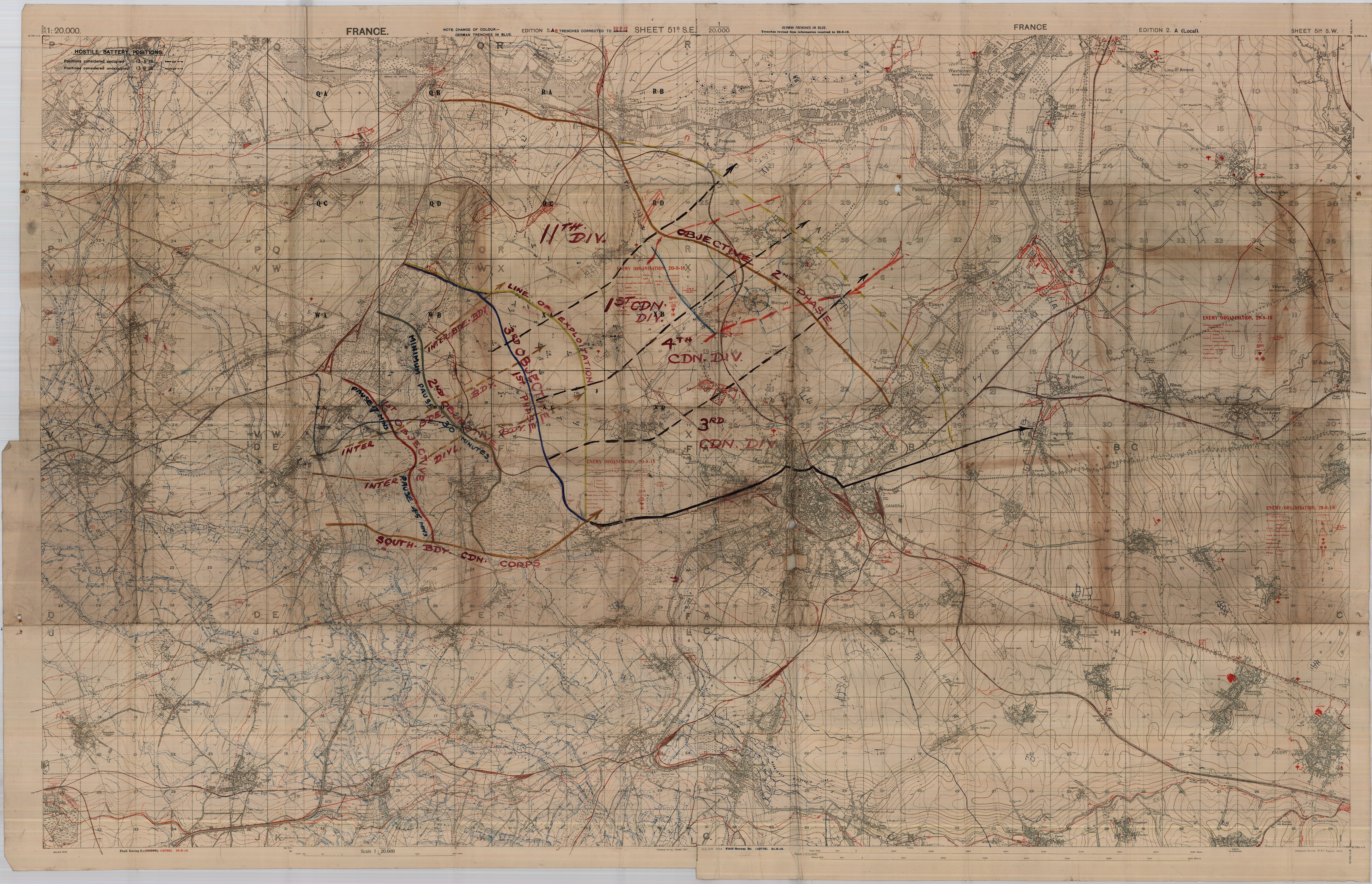 High Resolution Barrage Map [1:20,000]. Light linen backing. Trenches corrected to 20-8-18. four complete adjacent maps joined to form one large map. Lines indicating inter-brigade boundaries as well as the southern boundary of the Canadian Corps. Lines also indicating 1st, 2nd and 3rd Canadian Division objectives. Sheet numbers: 51b SE, 51a SW, 57c NE, 57b NW